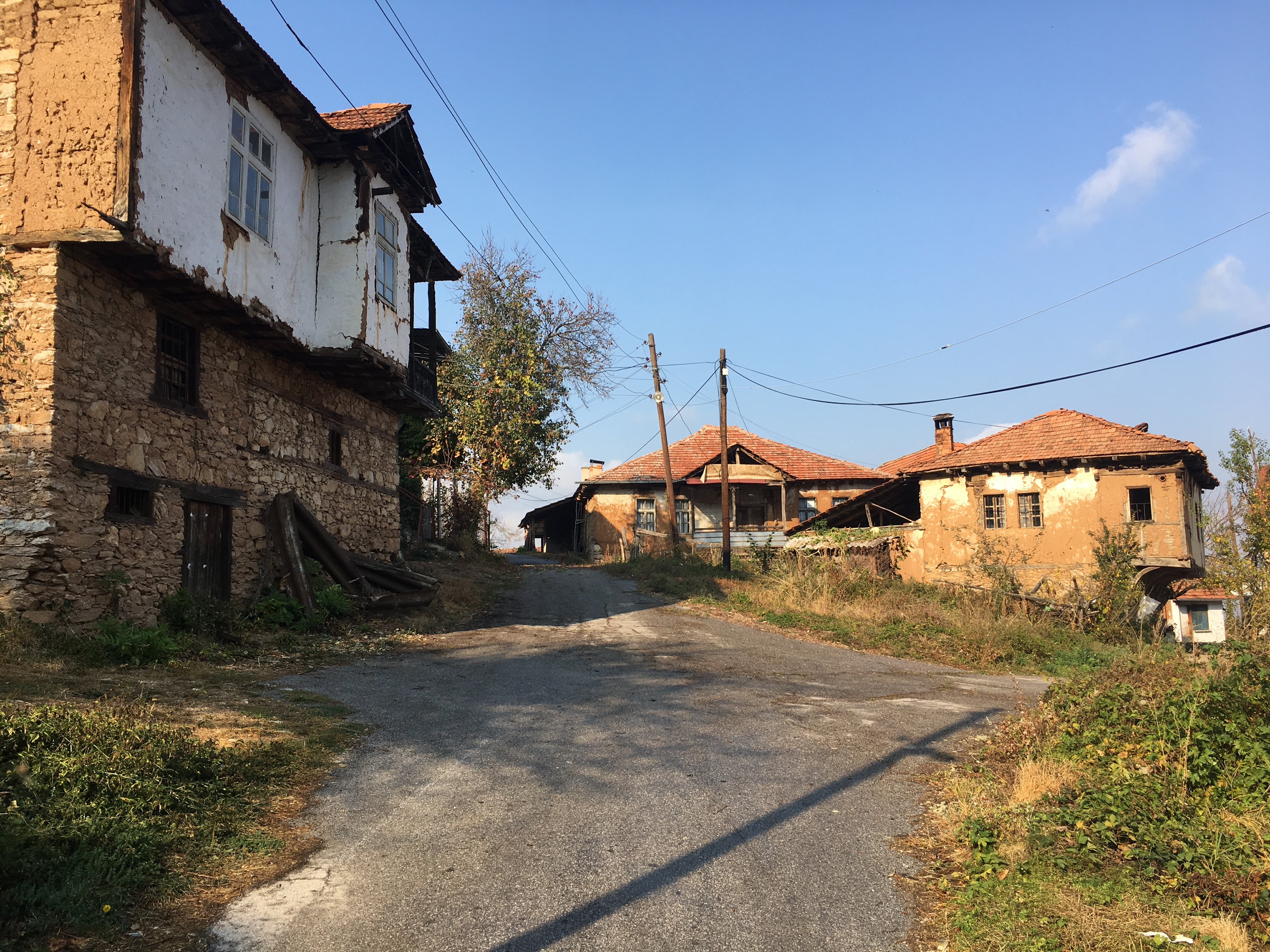 Wikiexpedition to Kopačka